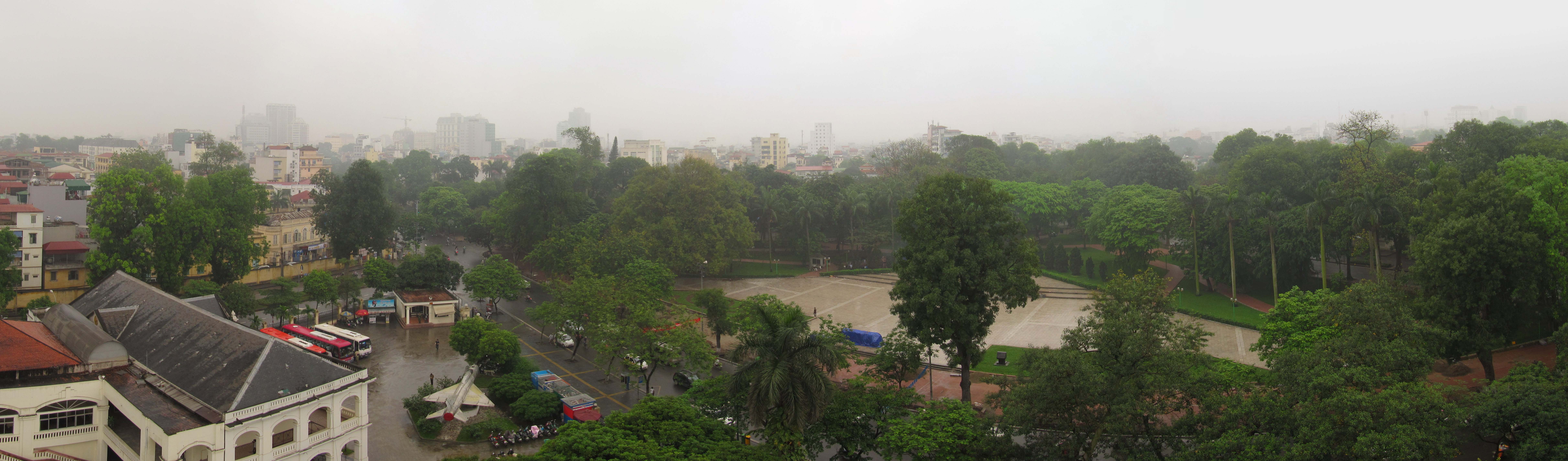 A panoramic view of the Lenin Park in Hanoi.